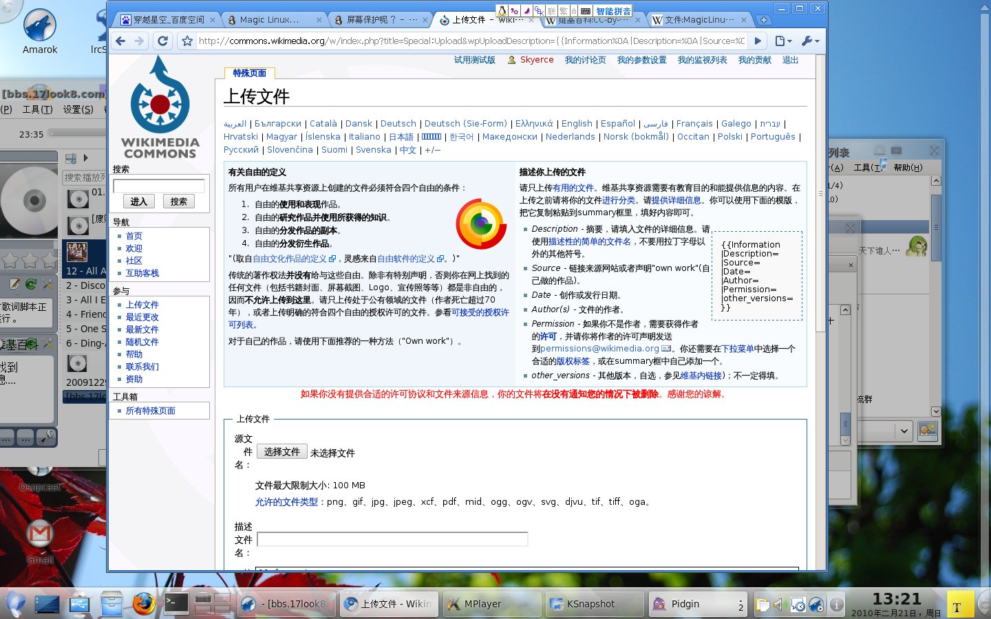 MagicLinux screenshot